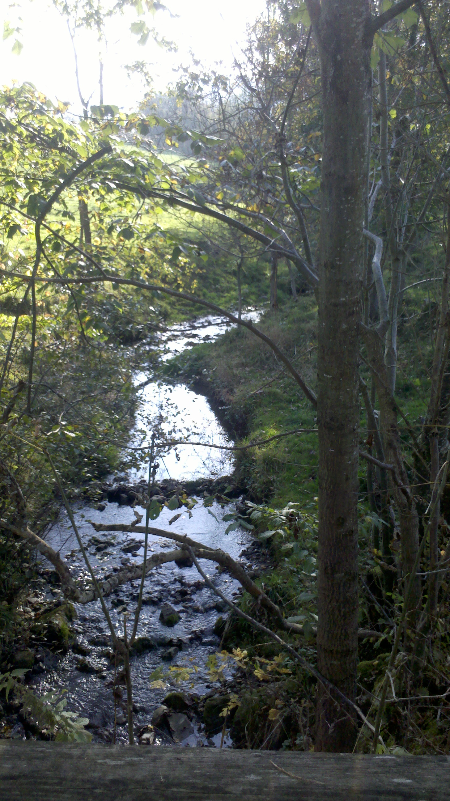 Schwärzenbach close to Ostin